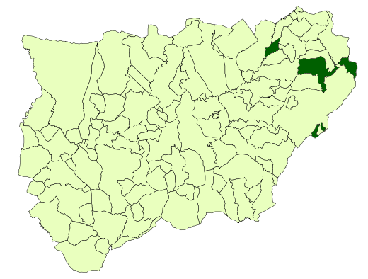 Situation of the municipality of Segura de la Sierra (Jaén, Spain).